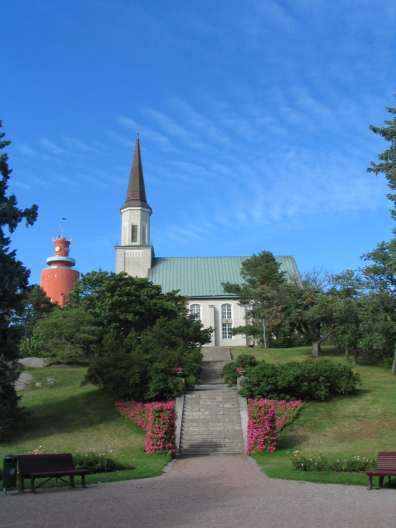 The church of Hanko with the water tower in the background.